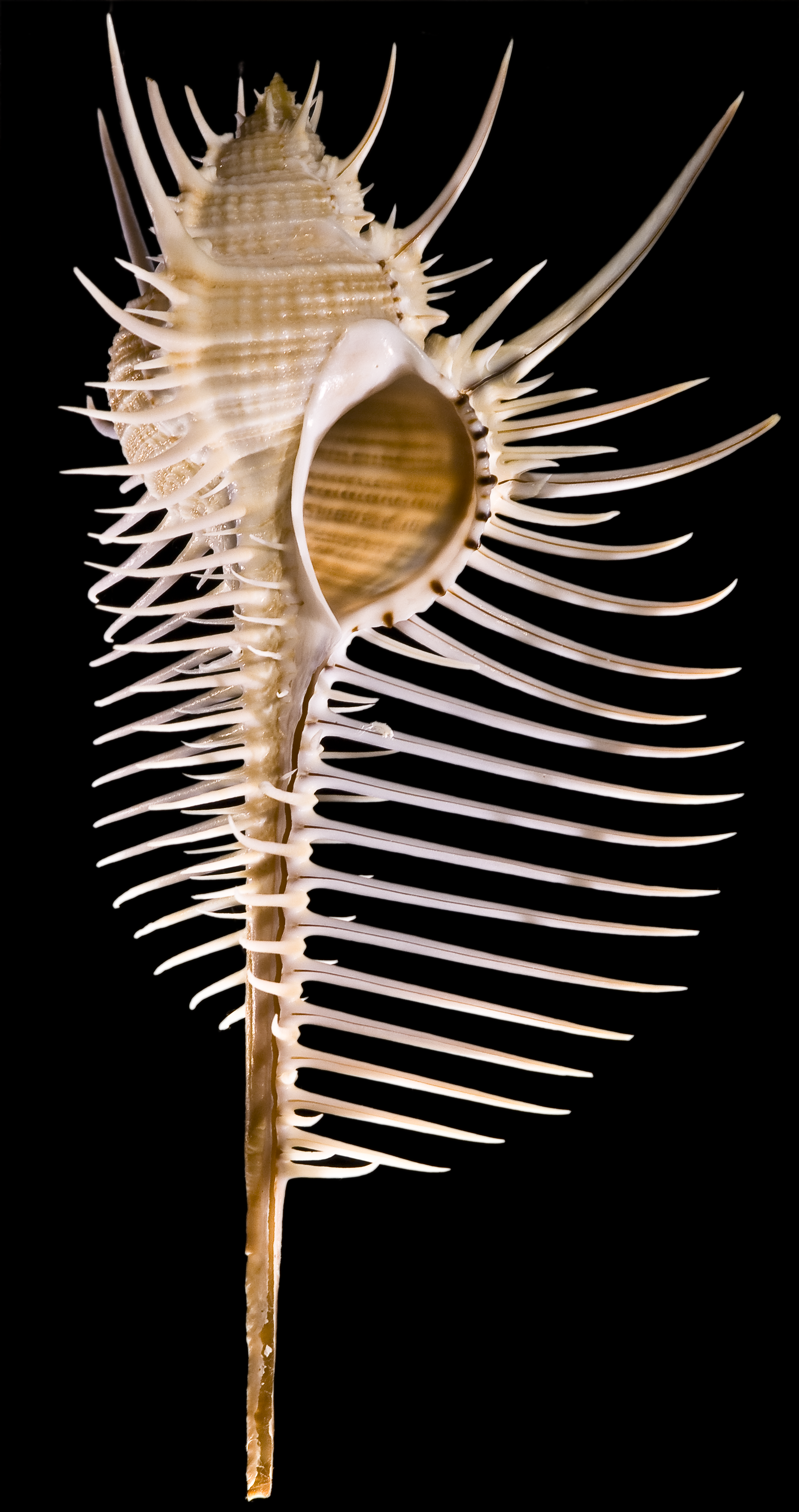 An apertural view of the shell of Murex pecten. The height of the shell is 15 cm.